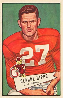 American football player Claude Hipps on a 1952 Bowman Large card.